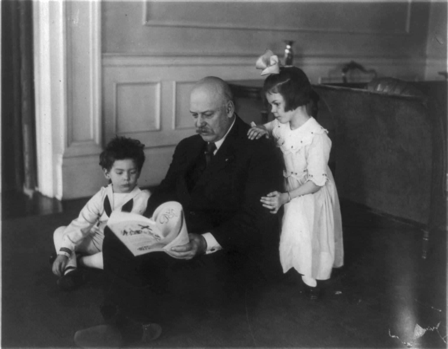 Cabinet children: Secretary of War Weeks [seated on floor] with his grandchildren, John and Martha Davidge, children of Mr. and Mrs. John W. Davidge